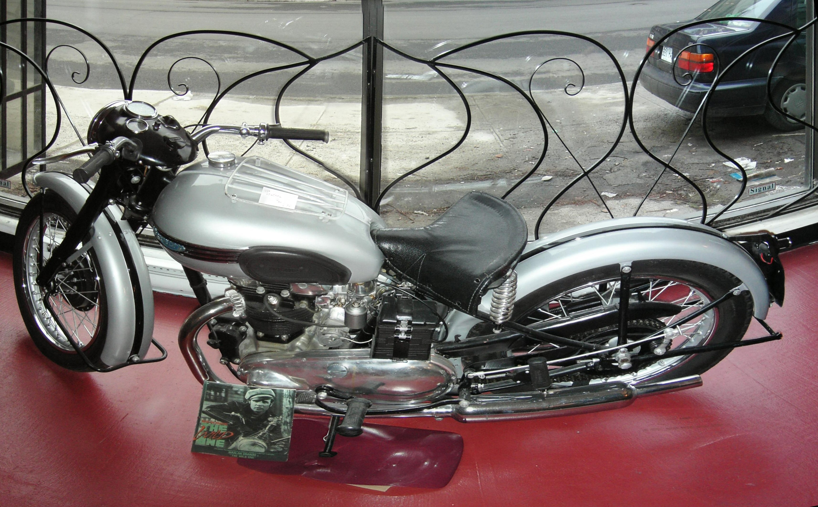 my friend sonya showed me this motorcycle that her boyfriend restored. it's like the one that marlon brando rode in the wild one.